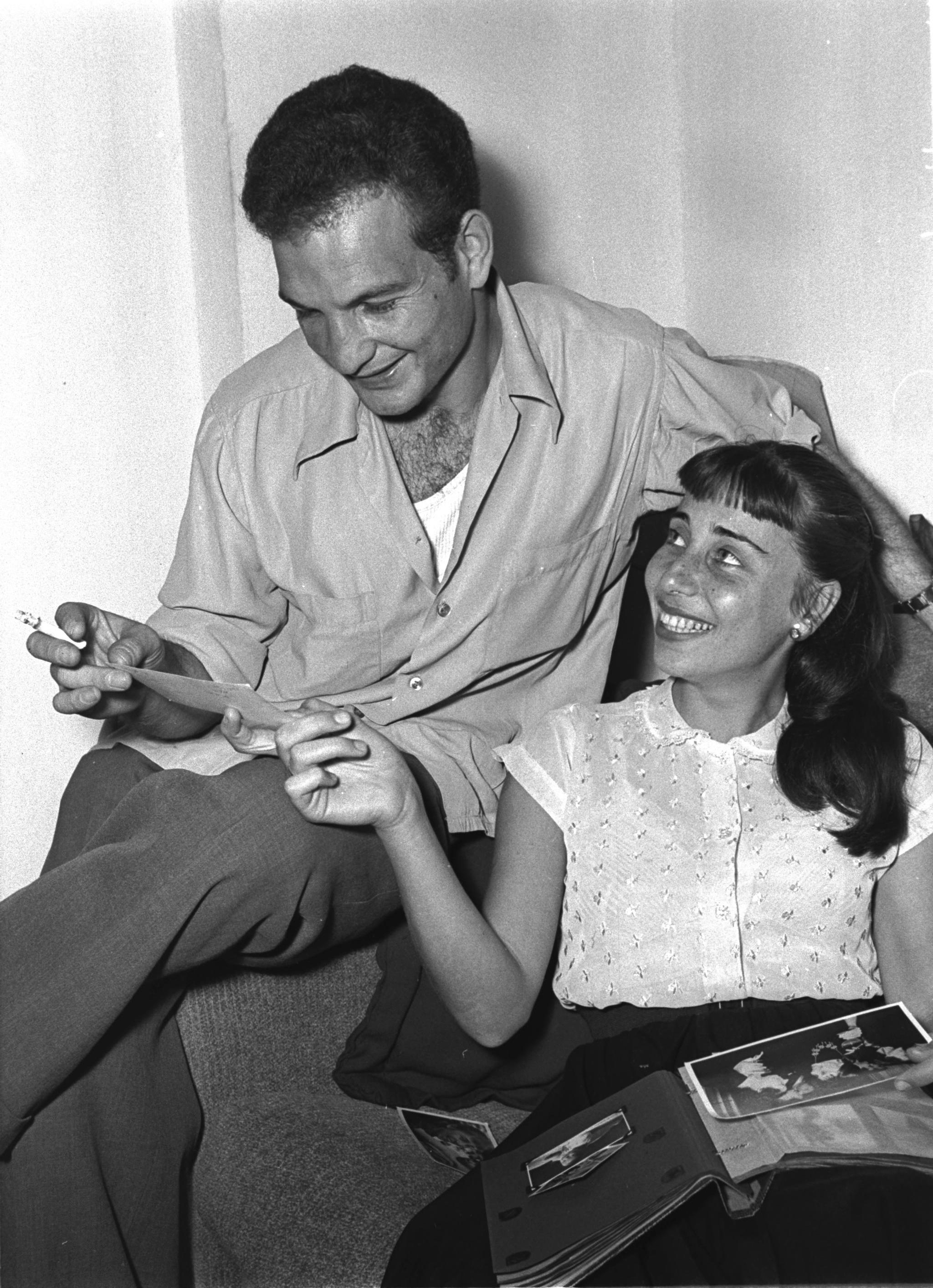 ENTERTAINER SHAIKE OFIR (L) & OHELA HALEVI, IN THEIR APARTMENT IN TEL AVIV.